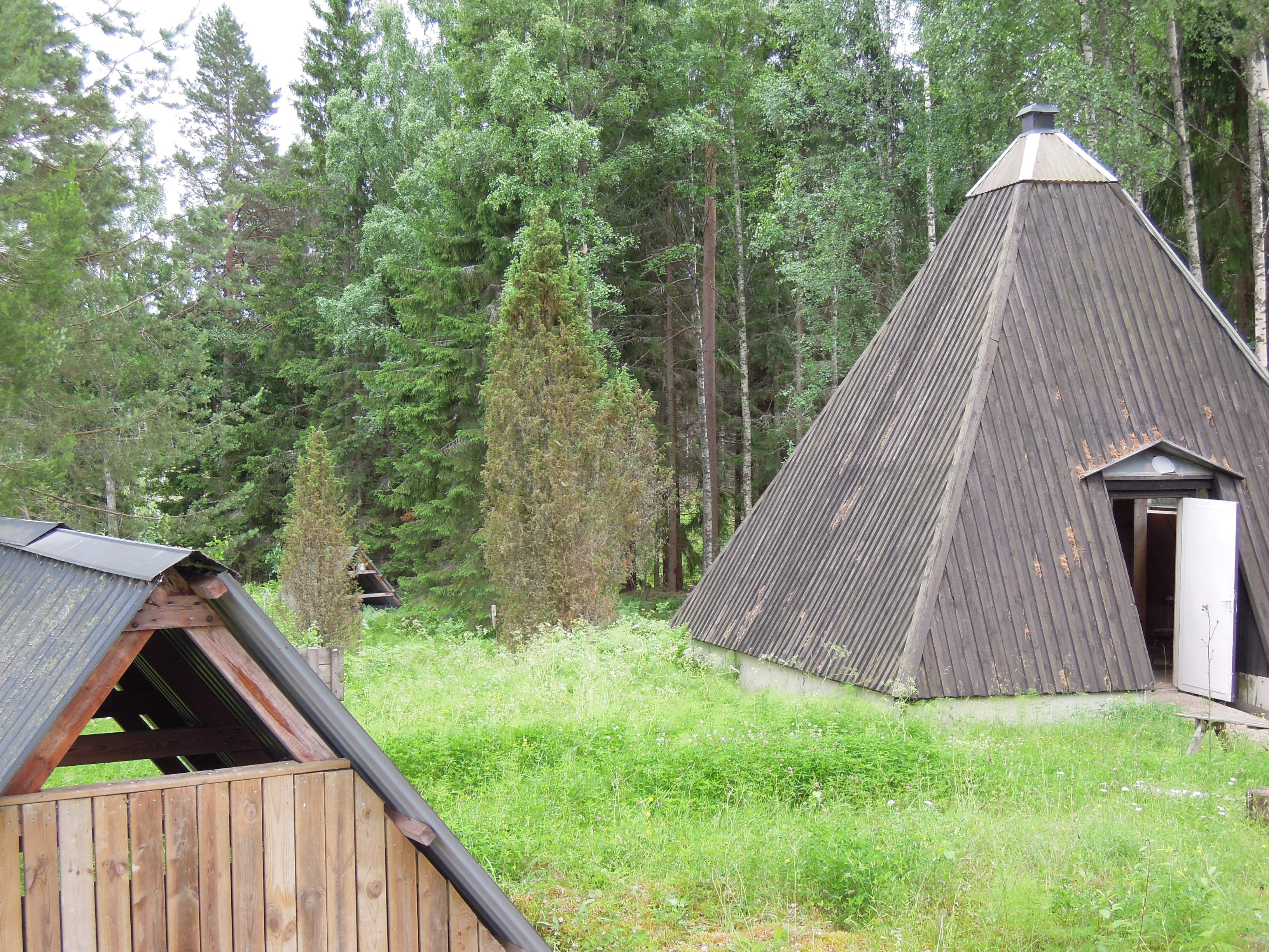 Museum for medieval iron production at Dunshammar, Ängelsberg, Sweden